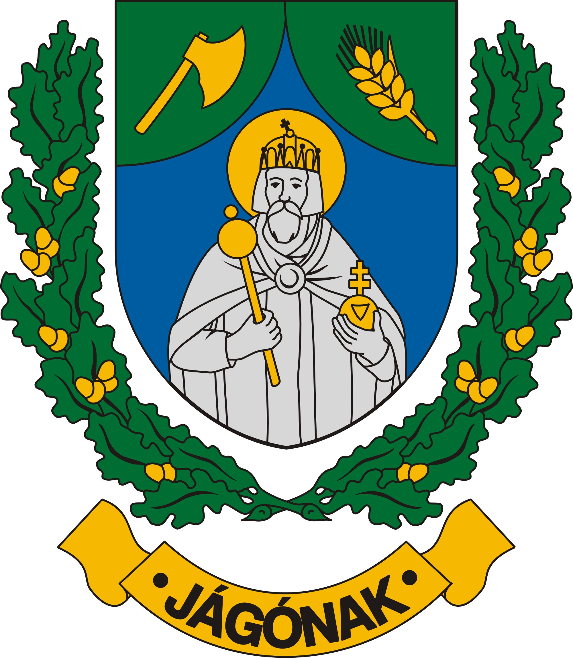 Coat of arms of Jágónak, Hungary